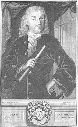 Portrait of Governor Joan van Hoorn (1653-1711)